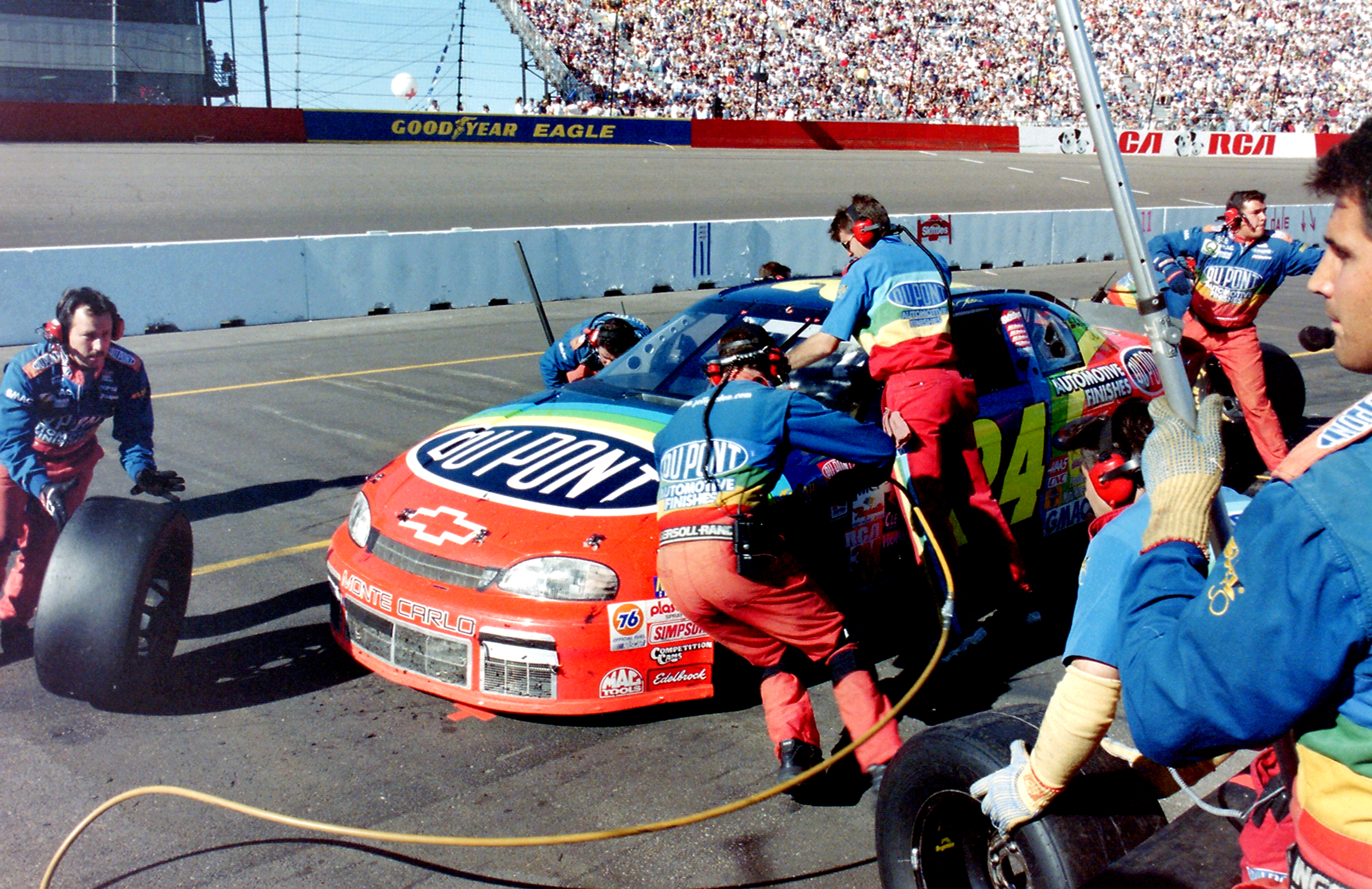 NASCAR champion Jeff Gordon getting a pit stop from his "Rainbow Warriors" pit crew in 1997.